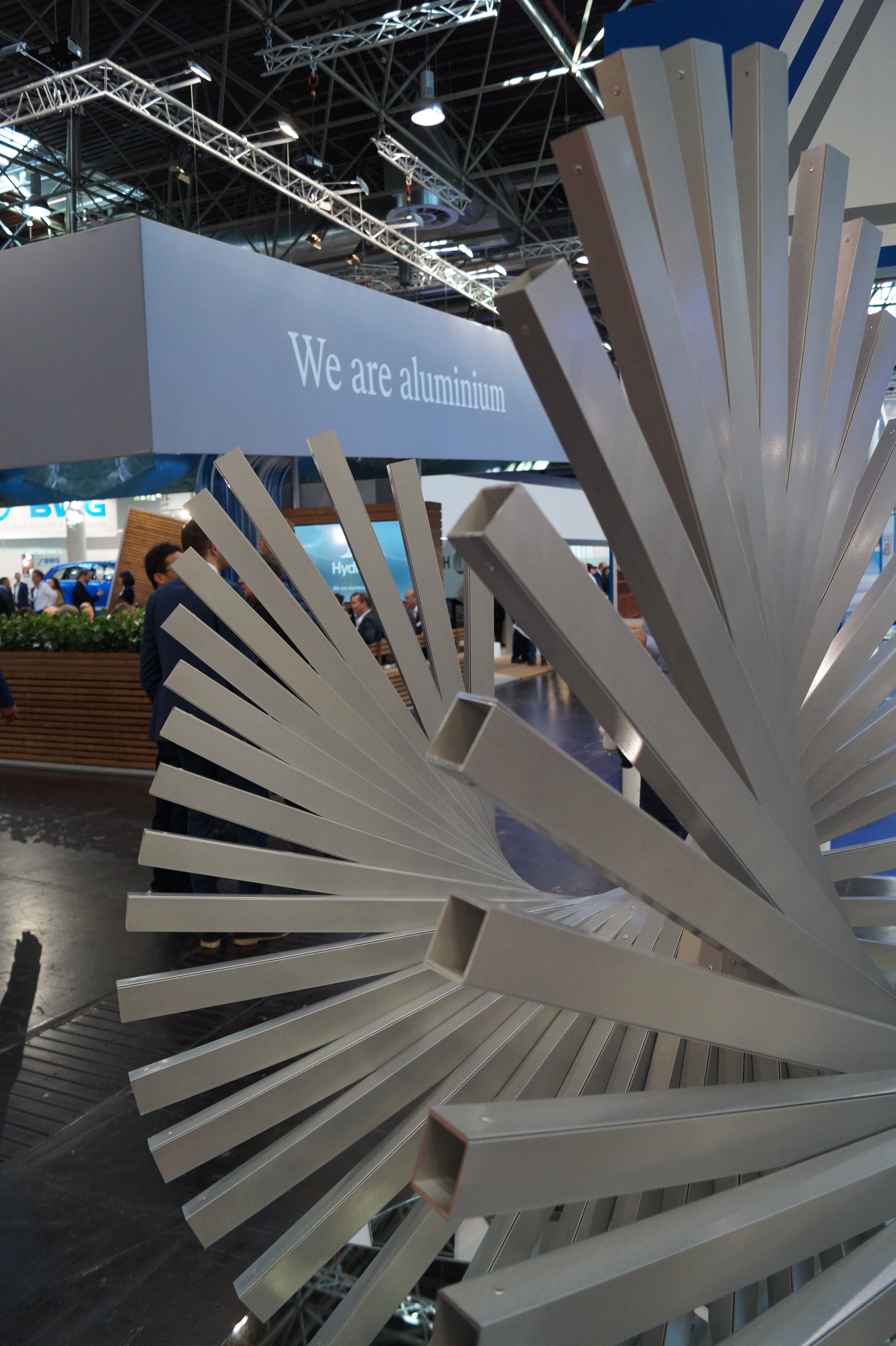 Aluminium 2018 World Trade Fair and Conference